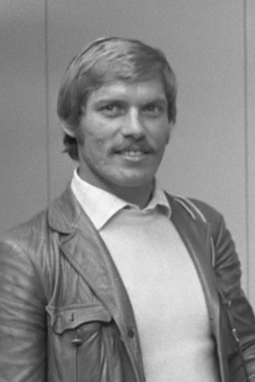 AC Milan player Romeo Benetti at Amsterdam Schiphol airport